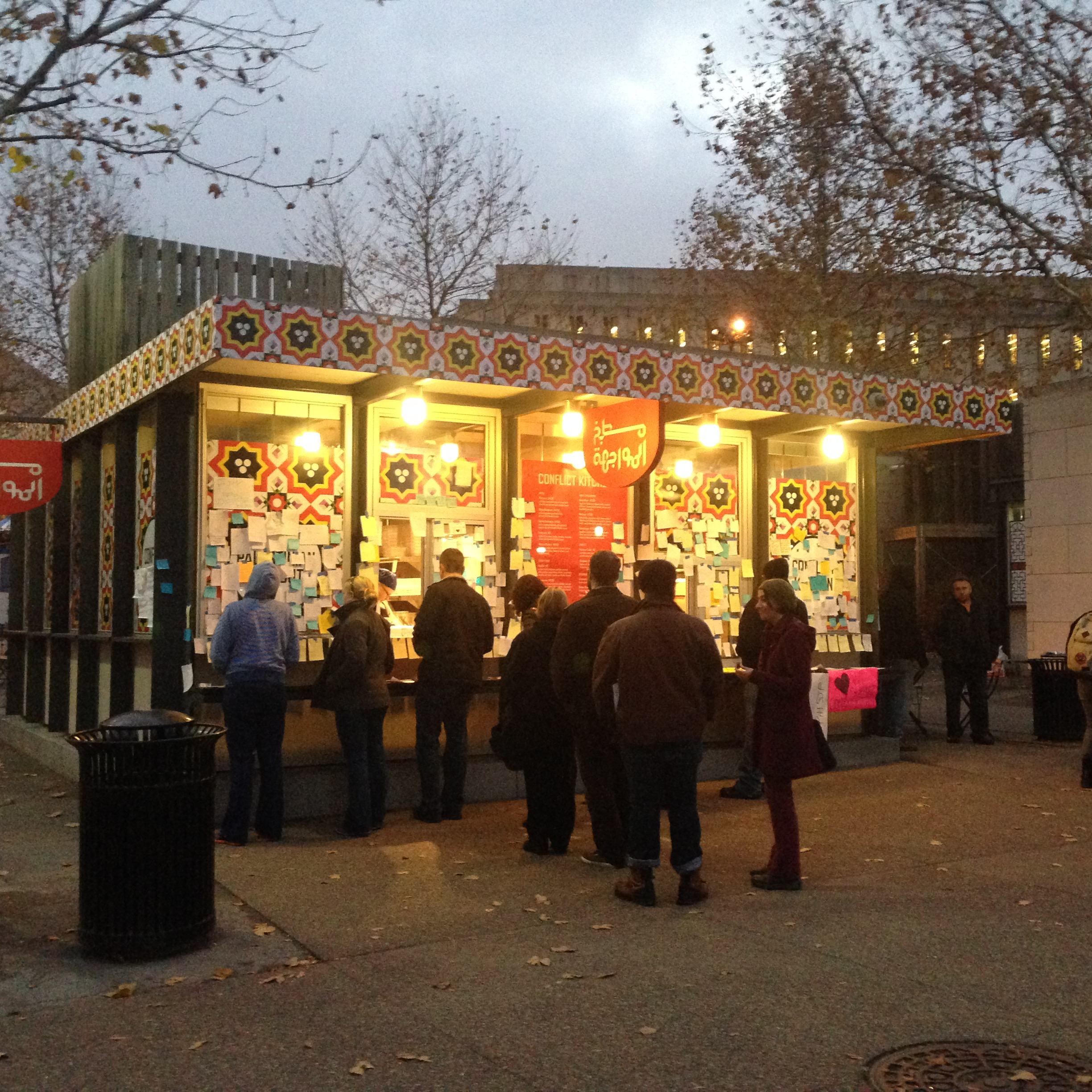 The restaurant's exterior, covered with hundreds of hand-written notes of support. Conflict Kitchen closed briefly in response to death threats.